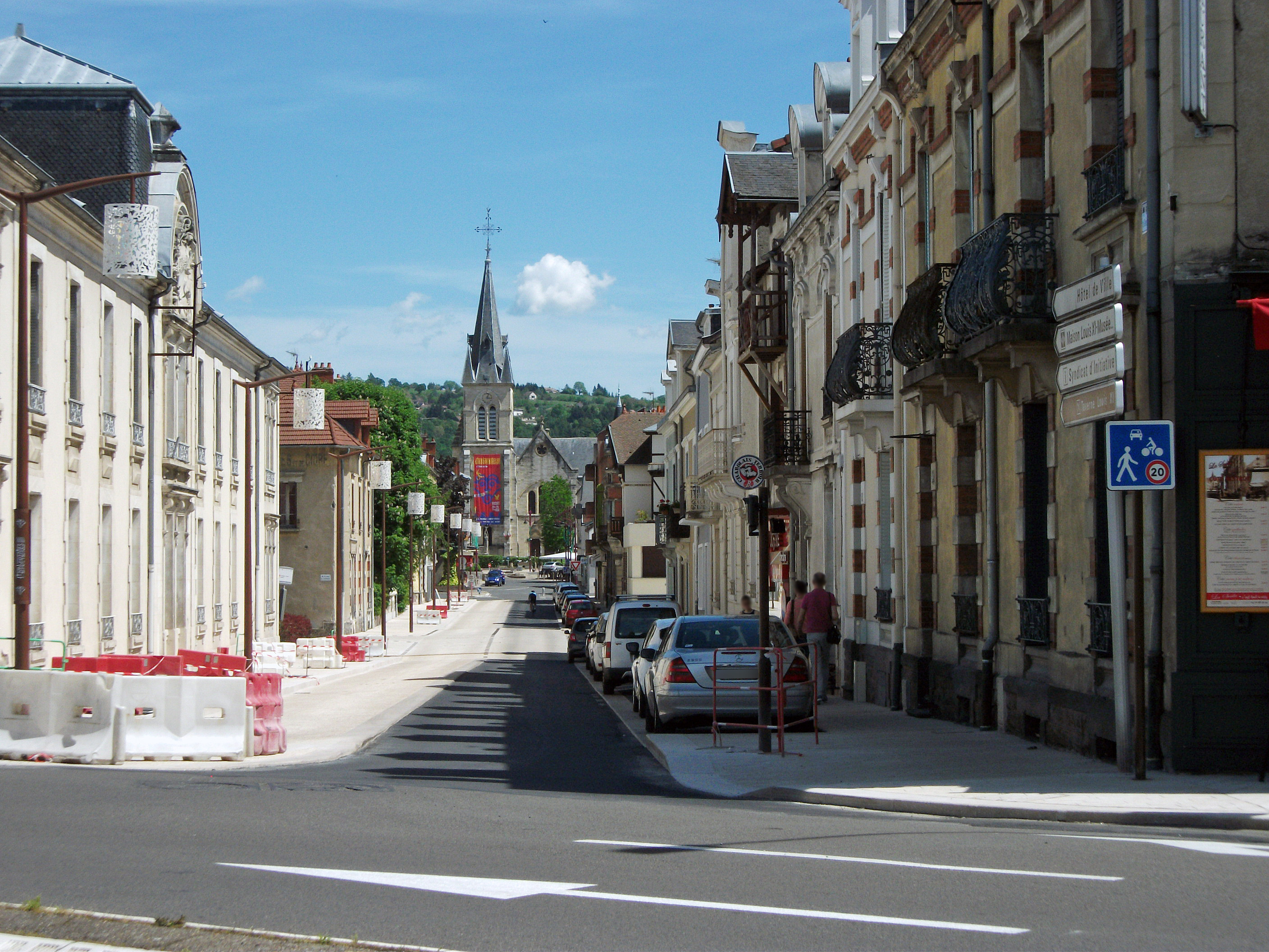 Boulevard du Général de Gaulle renovated in Cusset, Allier, Auvergne-Rhône-Alpes, France [10842]